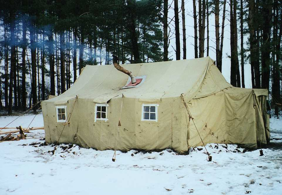 Protesters' tent at Kurapaty, Minsk, 2000.